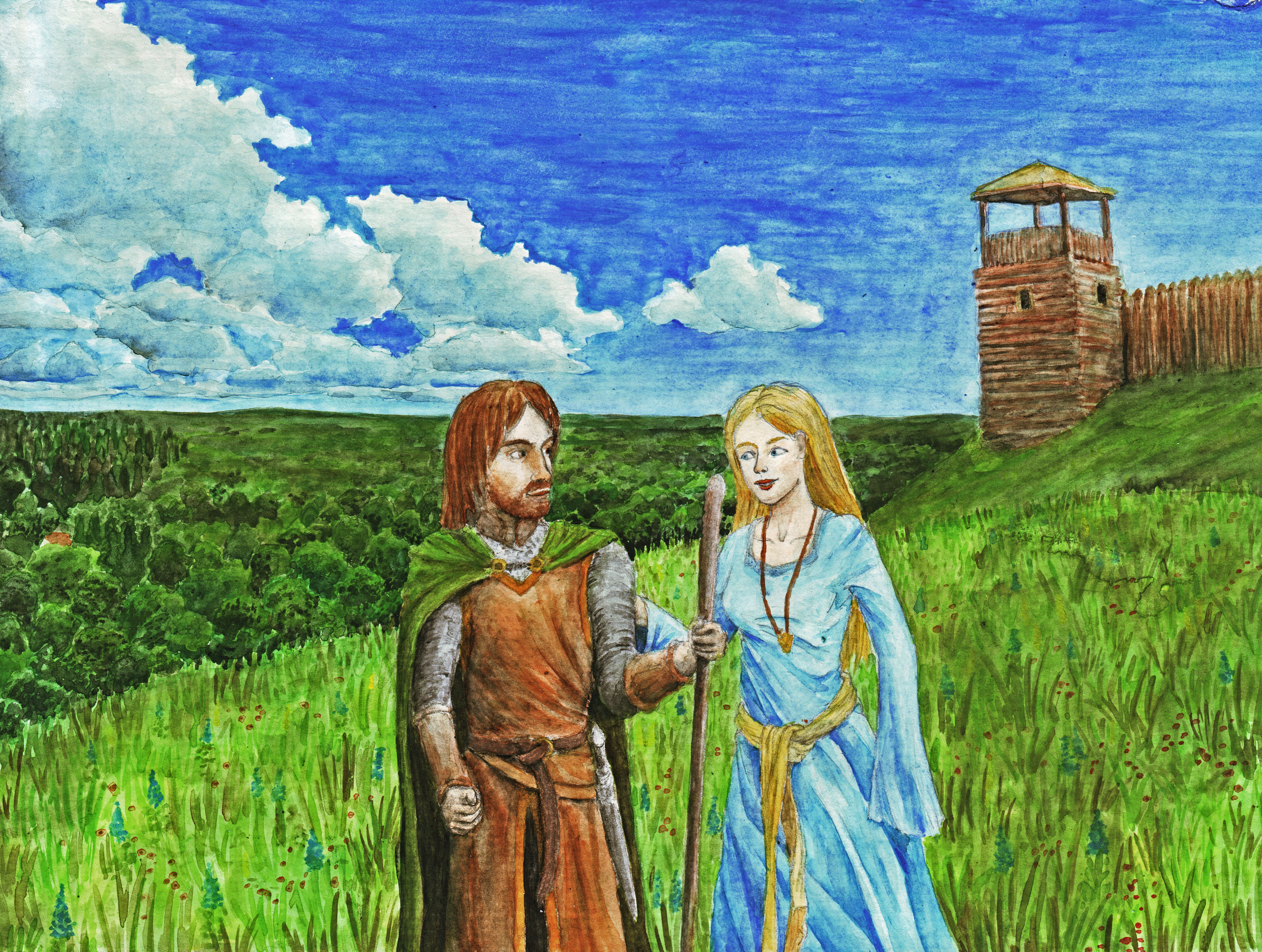 Haldir and Glóredhel of the Haladin on the hill of Amon Obel